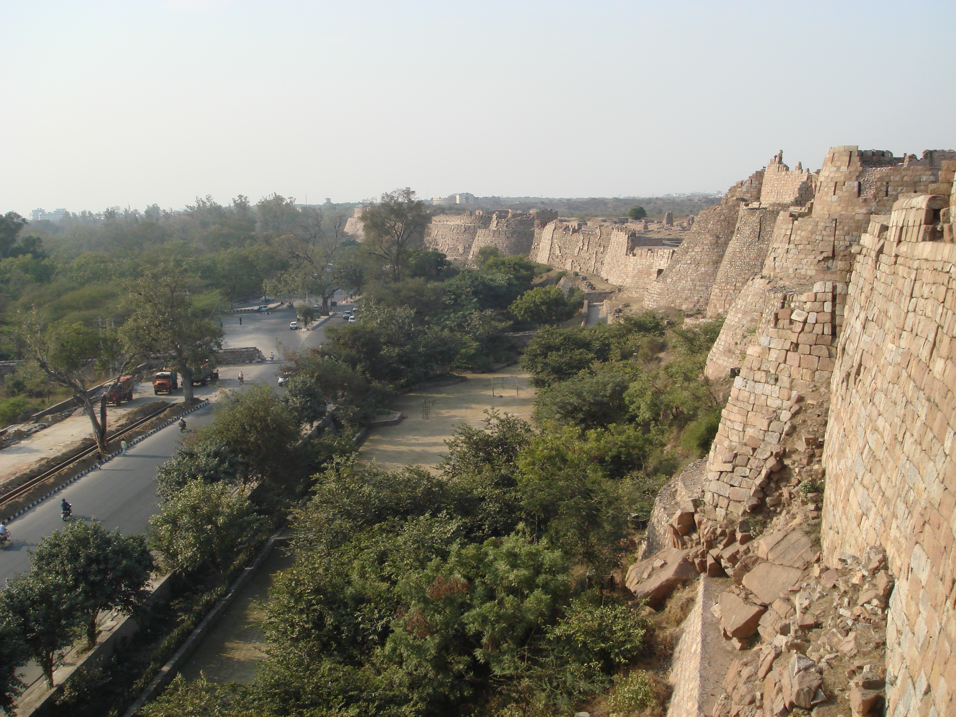 The walls of Tughlaqabad (Delhi, India).